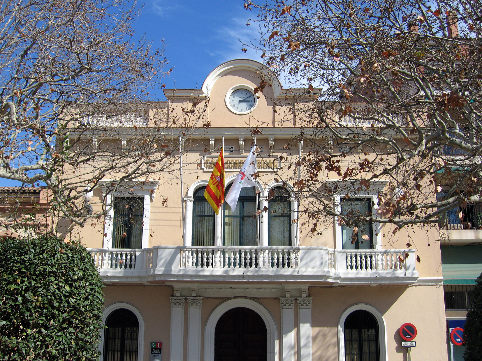 City hall of Sant Cugat del Vallès (Catalonia).